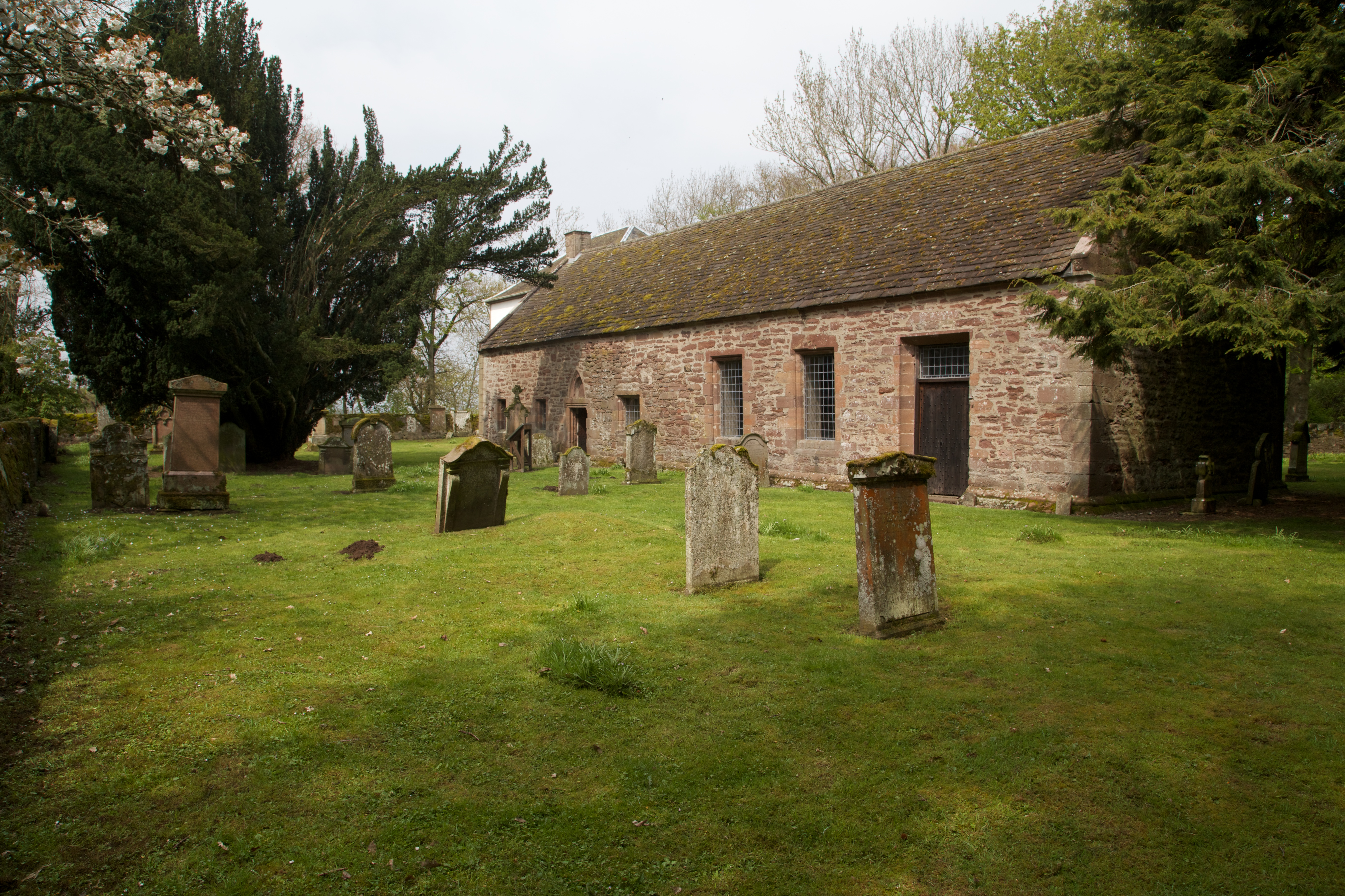 Innerpeffray Collegiate Church of the Blessed Virgin Wikidata has entry Q4418020 with data related to this item.